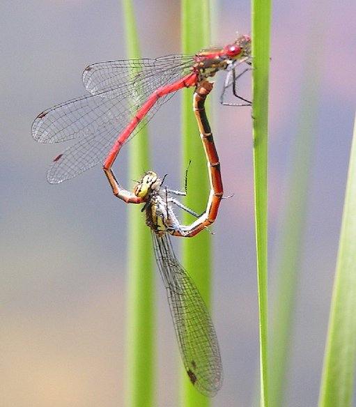 Damselfly mating wheel (file name is in error)